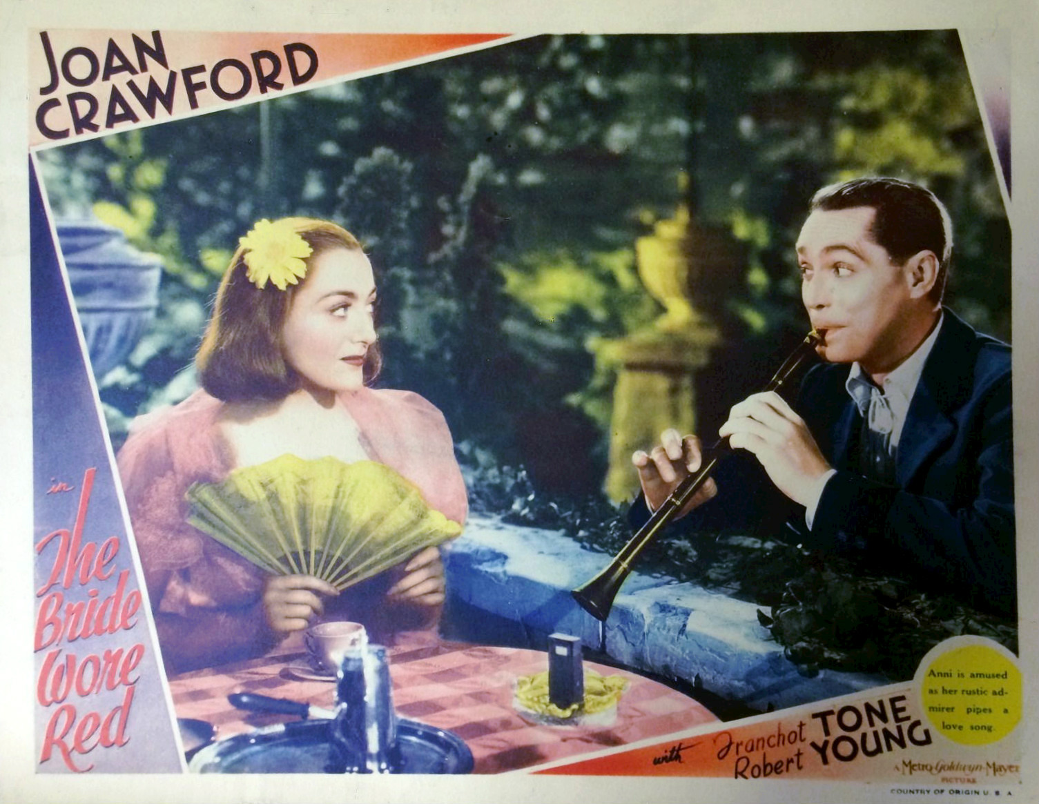 Lobby card from the American film The Bride Wore Red (1937).